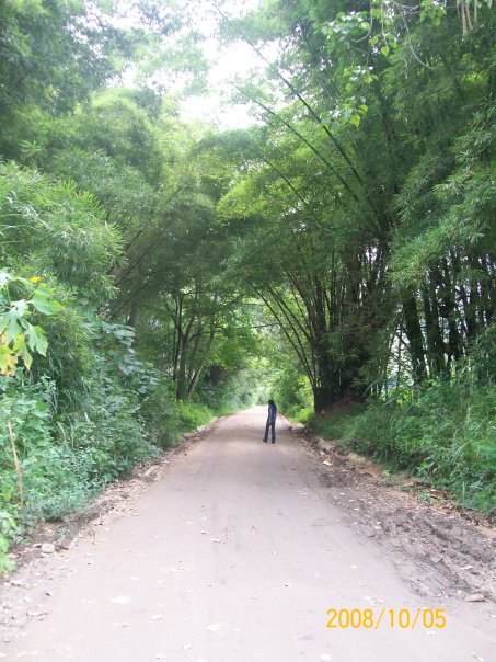 Chirgua Venezuela